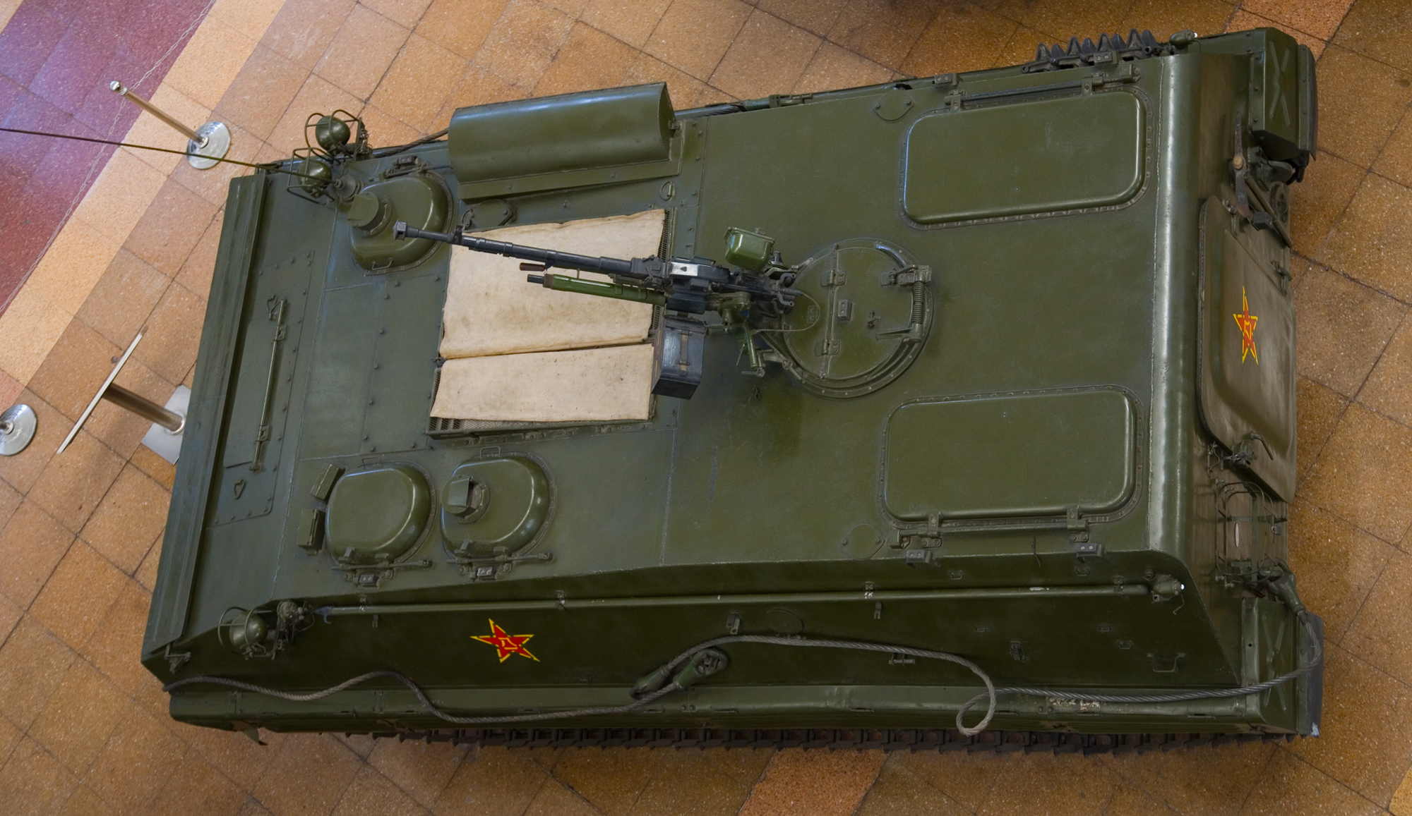 A Chinese Type 63 APC at the Beijing Military Museum from above